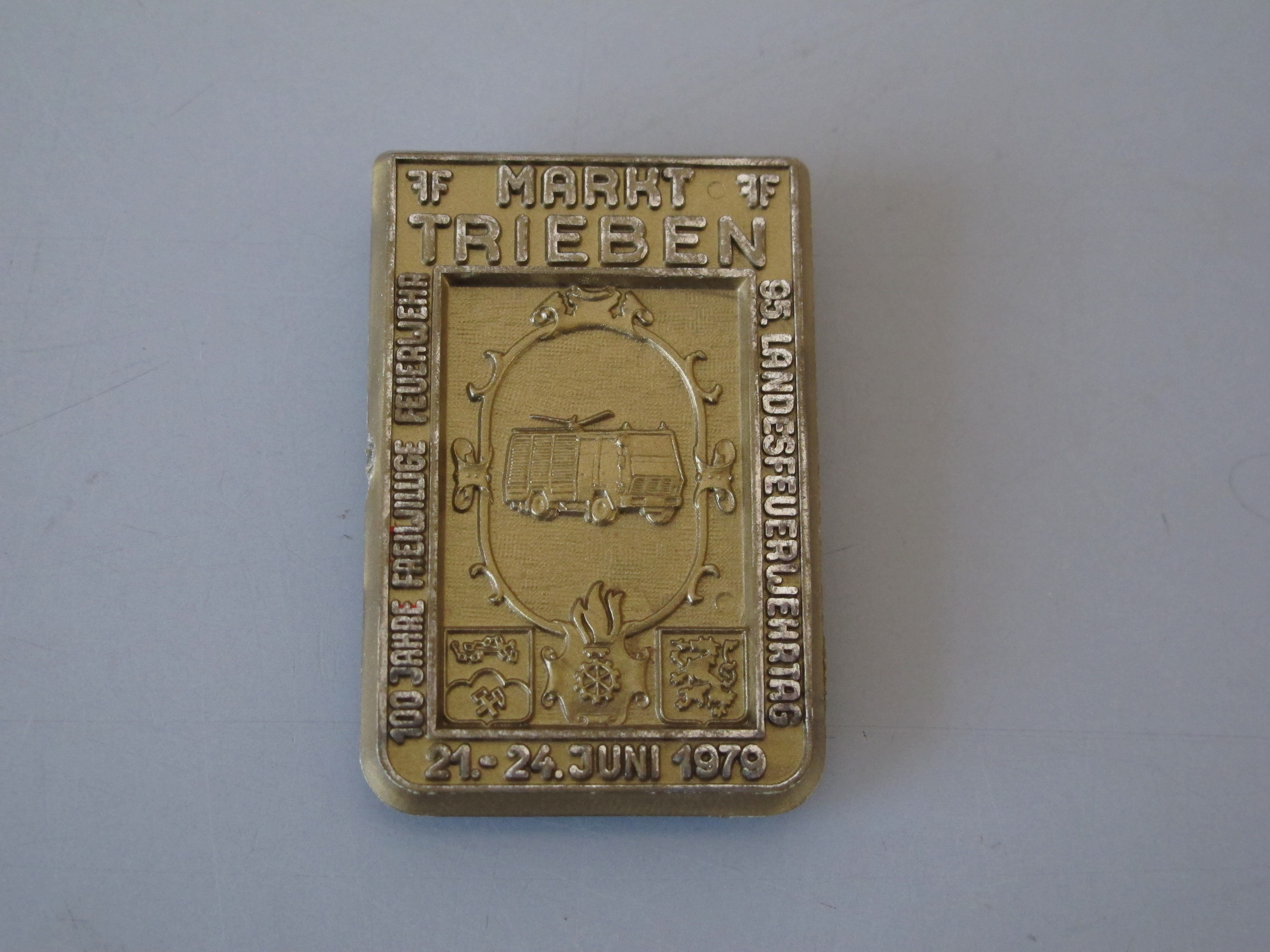 Trieben 1979